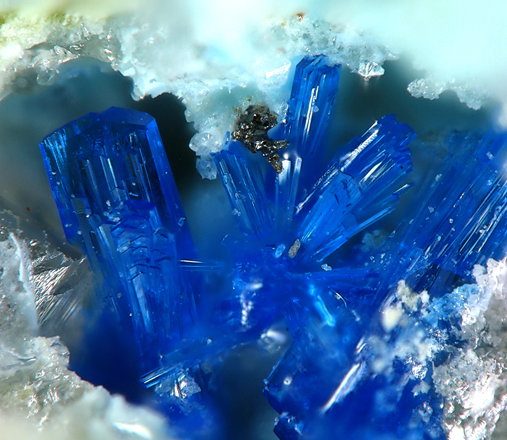 Linarite Locality: Linares, Linares-La Carolina District, Jaén, Andalusia, Spain Picture width 1.5 mm. Collection and photograph Christian Rewitzer